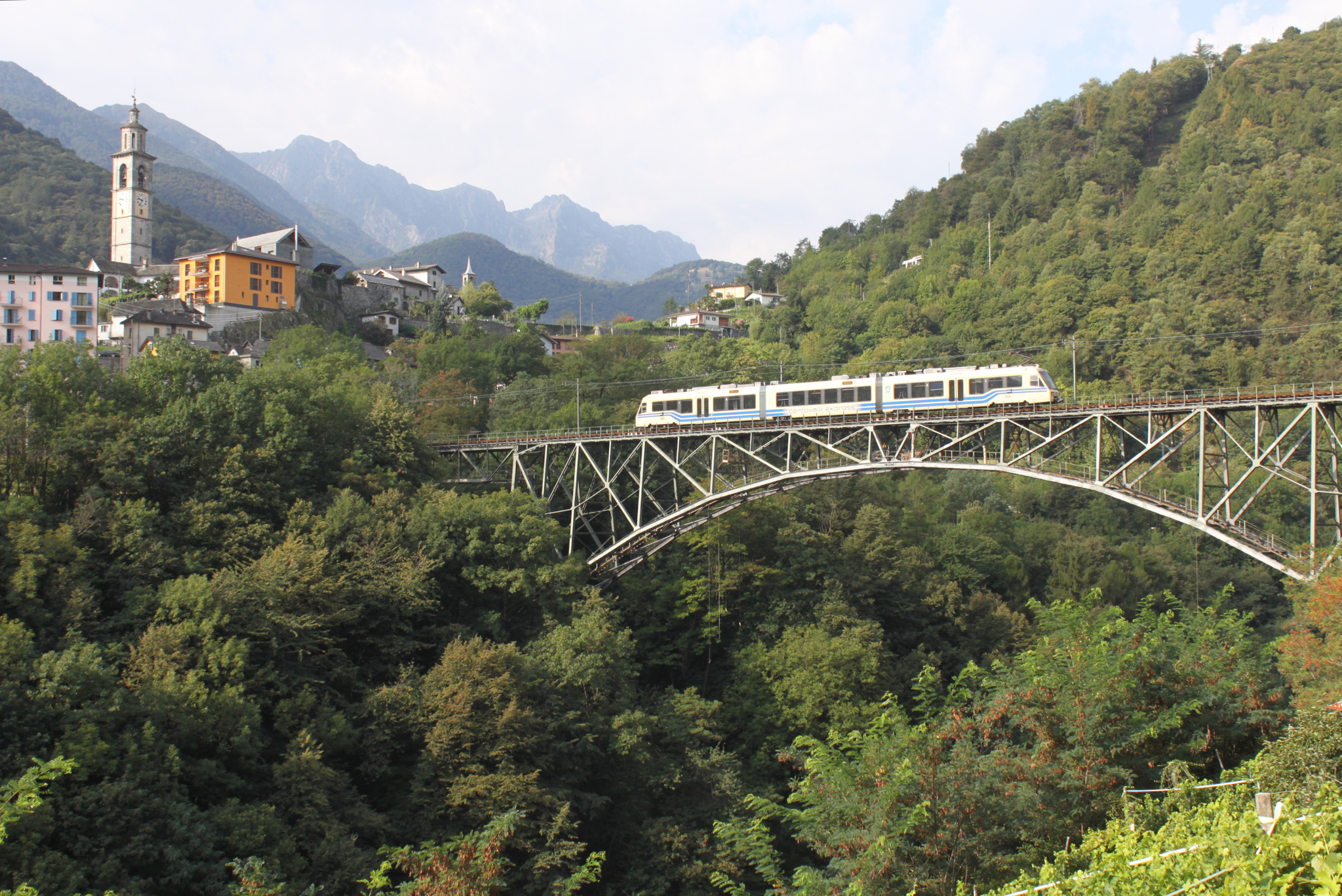 ABe 4/8 45 (former ABe 4/6 55), owned by FART, en route from Camedo to Locarno as R 307, has just passed Intragna (Switzerland).